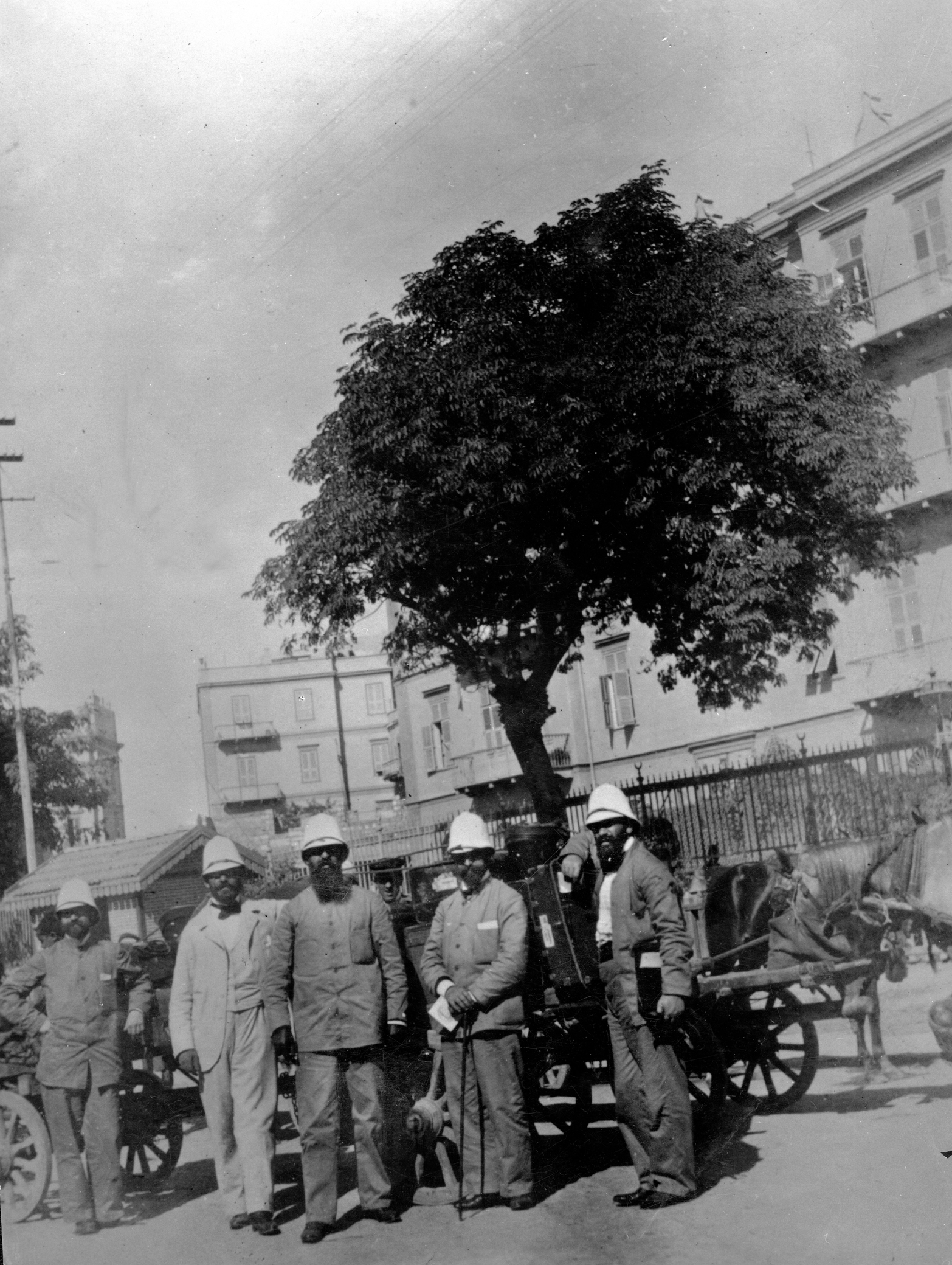 Herzl\'s visit to Israel. On the first days of the journey. posing in thier freshly bought suits from Port Said, yellow suits and white hats.